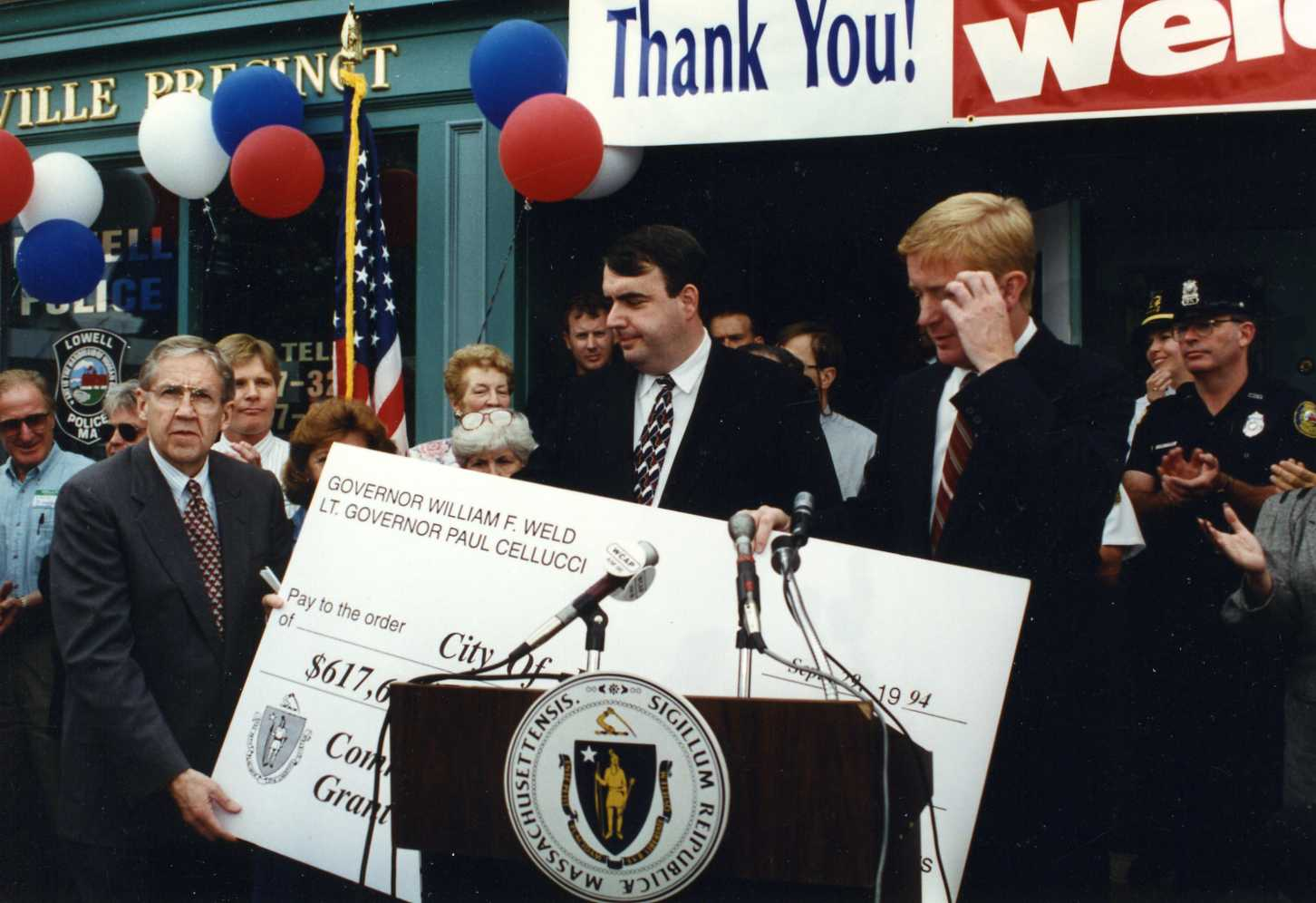 Presentation of a Community Policing Grant from the Commonwealth of Massachusetts to the city of Lowell in September 1994. From left, Lowell Mayor Richard Howe Sr, Lowell Police Chief Ed Davis, Governor Bill Weld